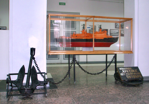 Memorial in honor of nuclear powered icebreaker "Arctika" conquest of the North Pole in 1977 in hall of museum of local lore of the Murmansk region